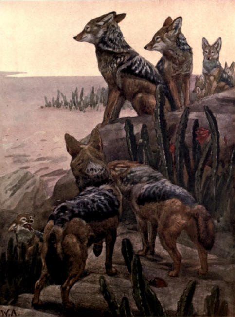 Black-backed jackals, as illustrated by Winifred Austen